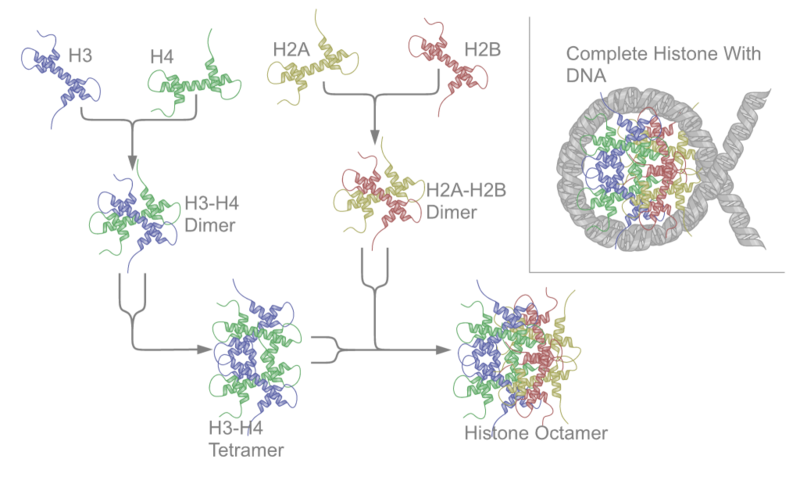 Schematic representation of the assembly of the core histones into the nucleosome. Referenced from Alberts et al. Molecular Biology of the Cell. Garland Science, 2001. ISBN 0-815340-72-9.